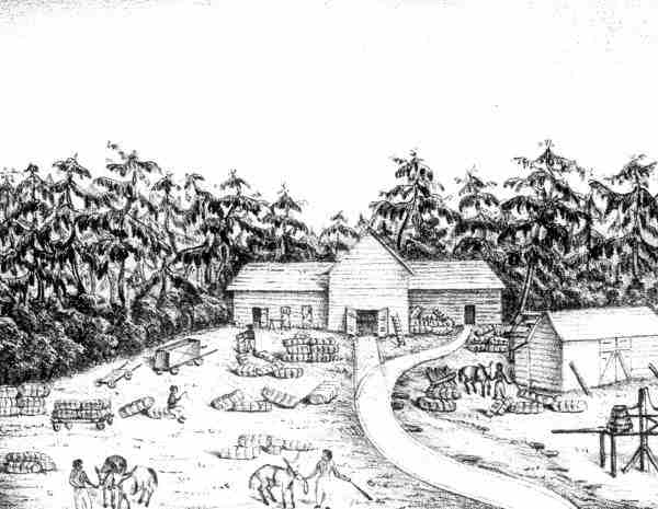 A sketch from the Florida Memory Project recorded with archive number RC02063 and held by the Florida State Archives; Tallahassee, Florida.